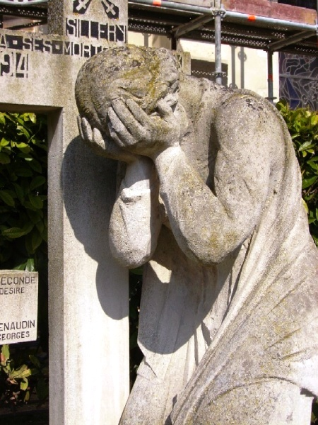 Sillery Monument aux Morts